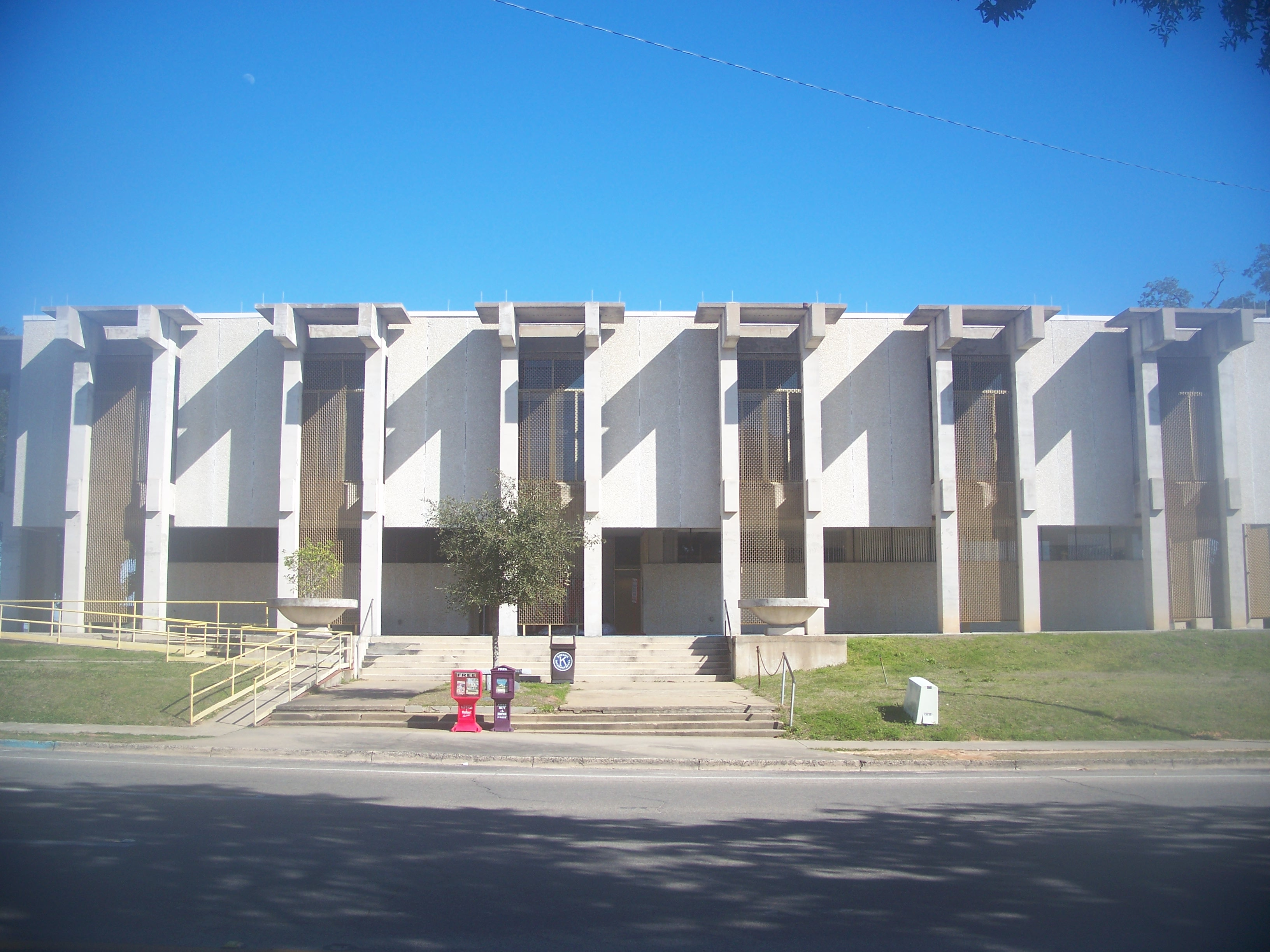 Marianna, Florida: County courthouse